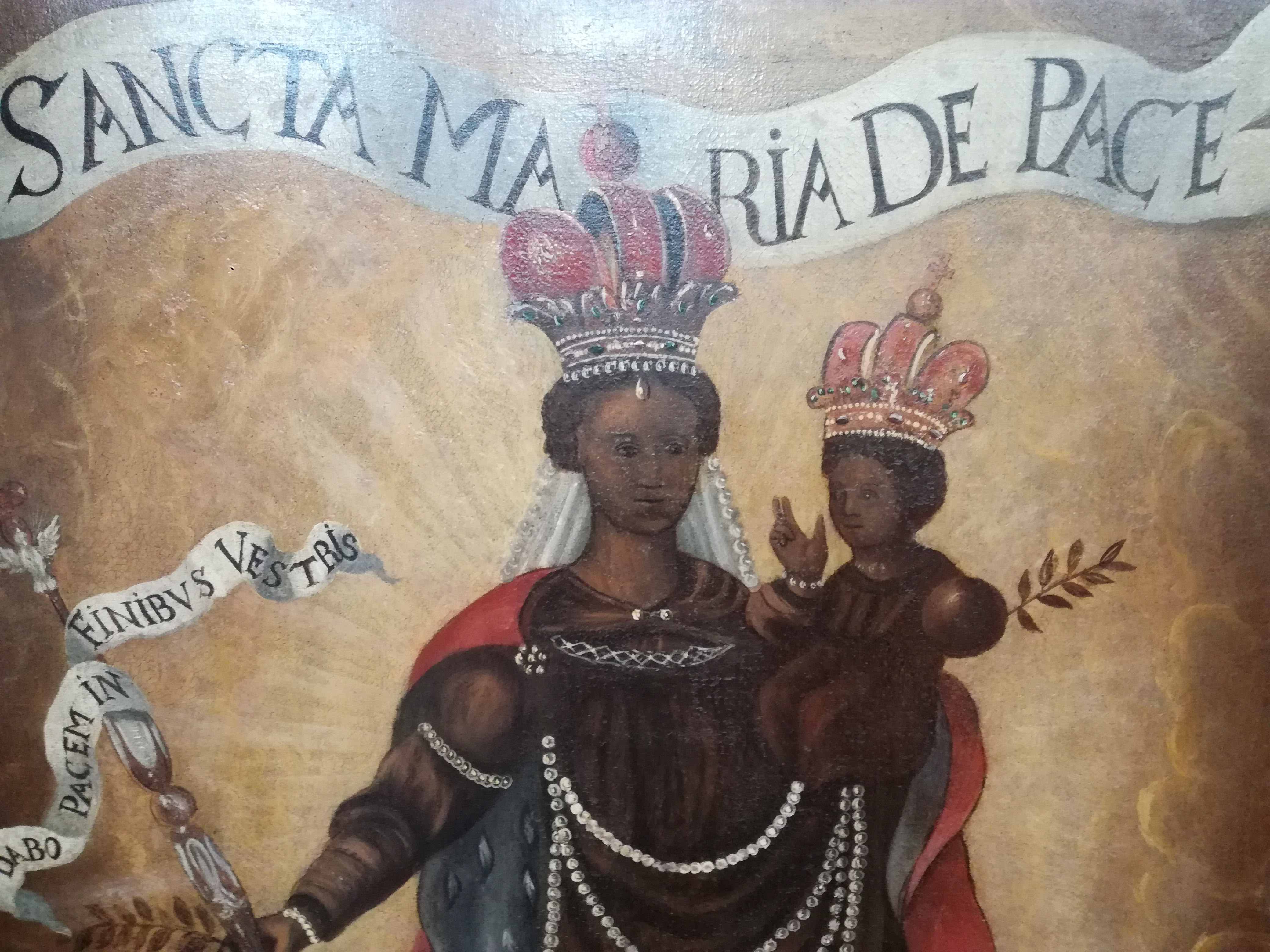 Devotional picture Maria de Pace, detail